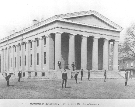 Norfolk Academy, 1840, 420 Bank Street, Norfolk, VA (extant)